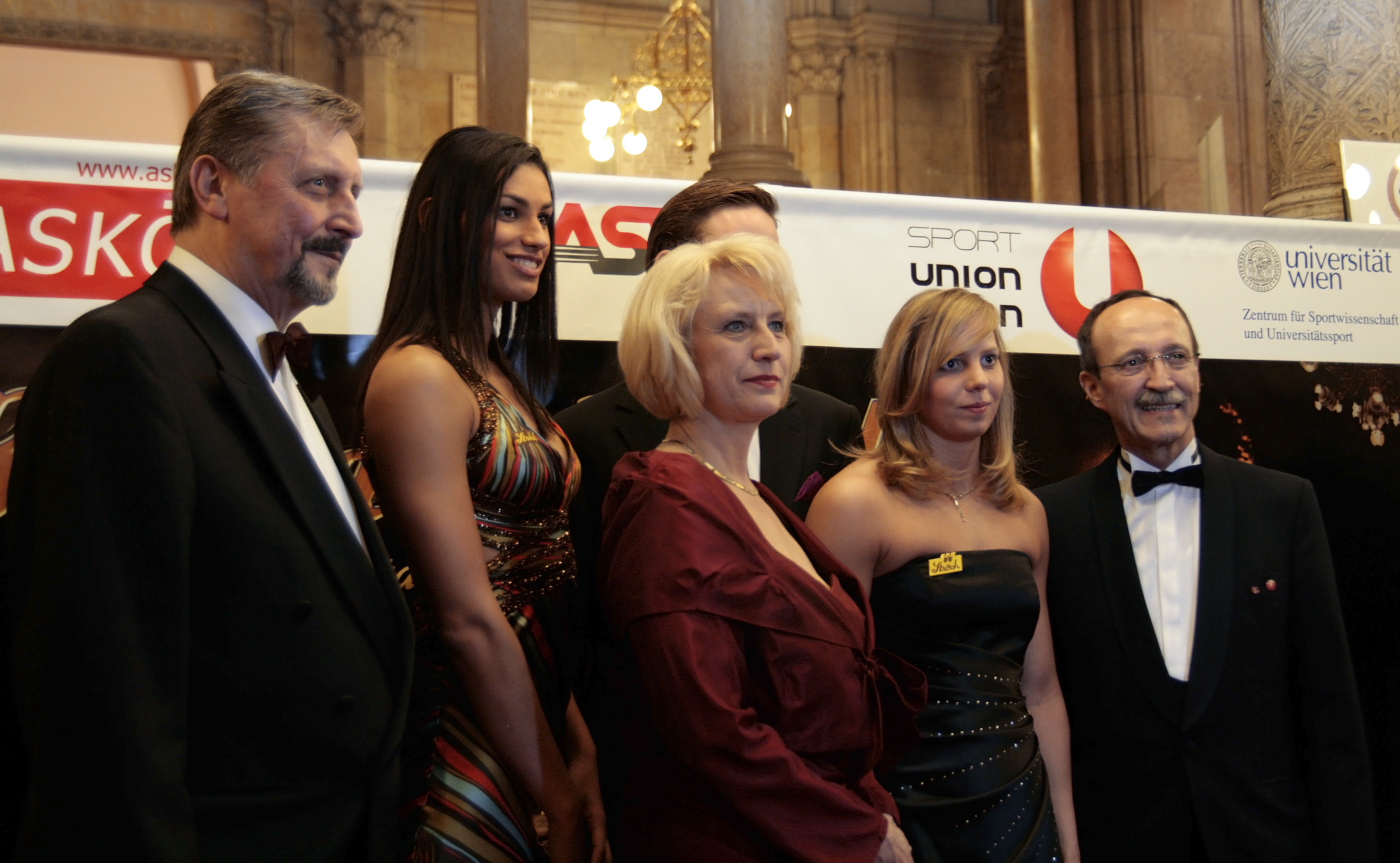 3rd Ball des Sports (Ball of Sports) at the Rathaus, Vienna; left to right: Josef Kopal (president of the ASVÖ Vienna), swimmer Fabienne Nadarajah, Beate Schasching (president of the ASKÖ, swimmer Birgit Koschischek and Walter Strobl (president of the Sportunion Vienna)